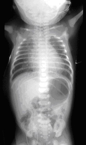 Plain X-ray of the chest and abdomen showing the radio-opaque tube in the blind upper oesophageal pouch